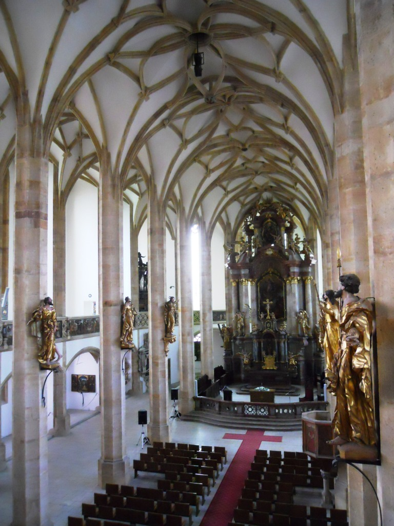 Most (CZ): Assumption church interior (1525-1580)